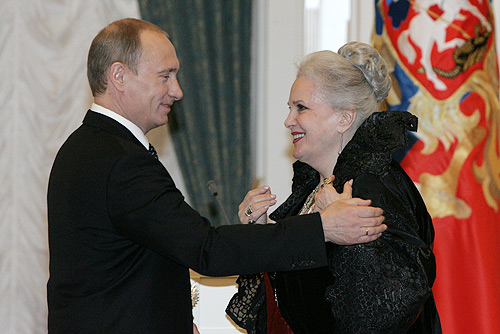 THE KREMLIN, MOSCOW. Ceremony for the presentation of state awards. Actress Elina Bystritskaia receives the order For Services to the Fatherland I degree.